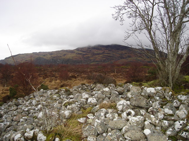 Cairn on the Moss of Achnacree looking north to Beinn Lora